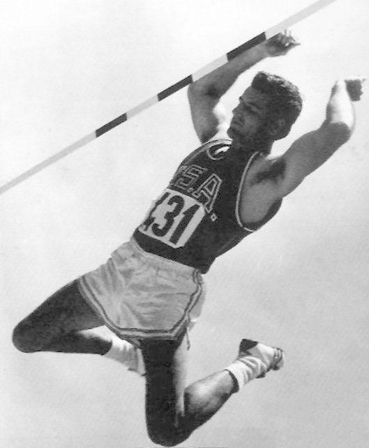 Don Bragg at the 1960 Olympics